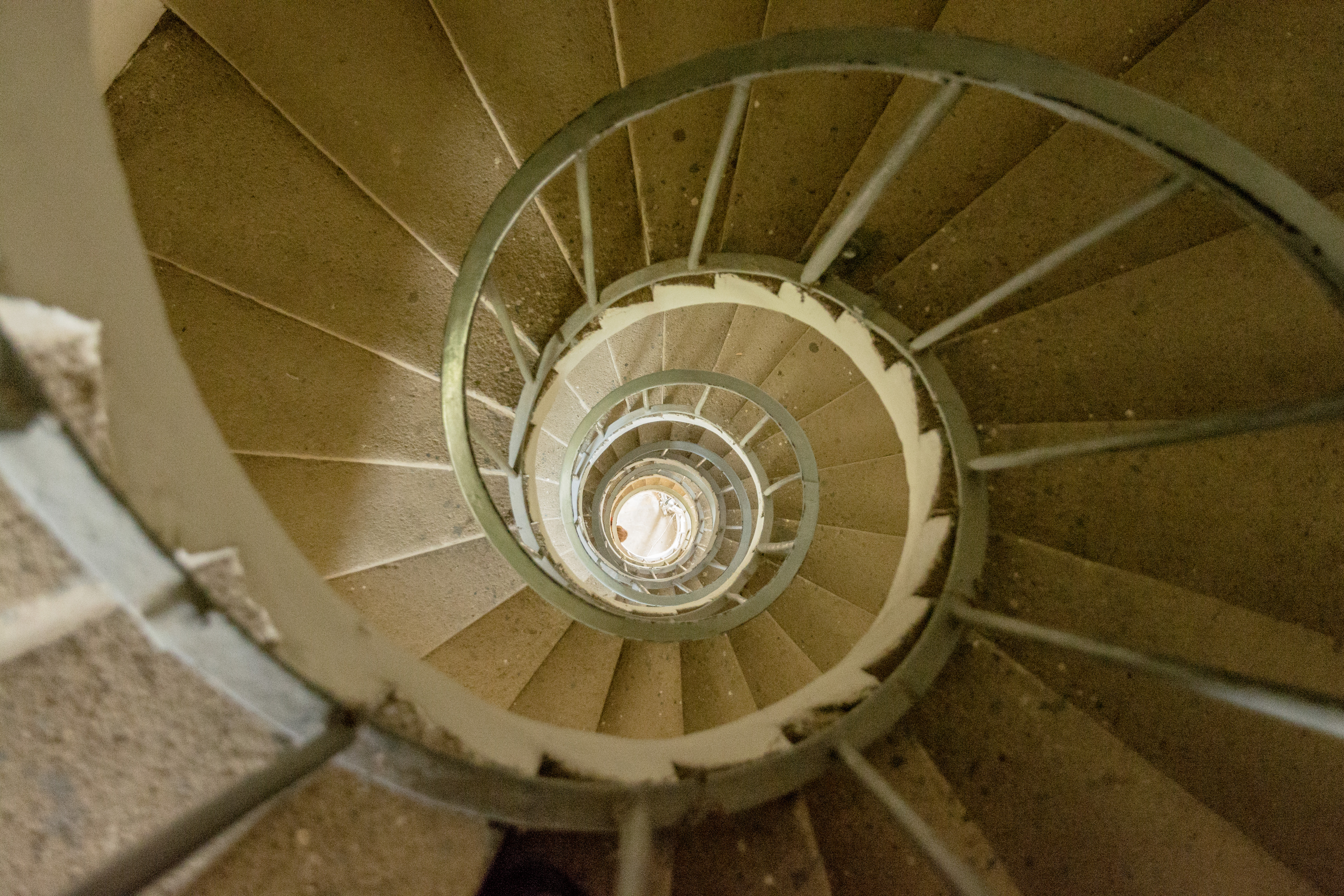 Minaret in Lednice